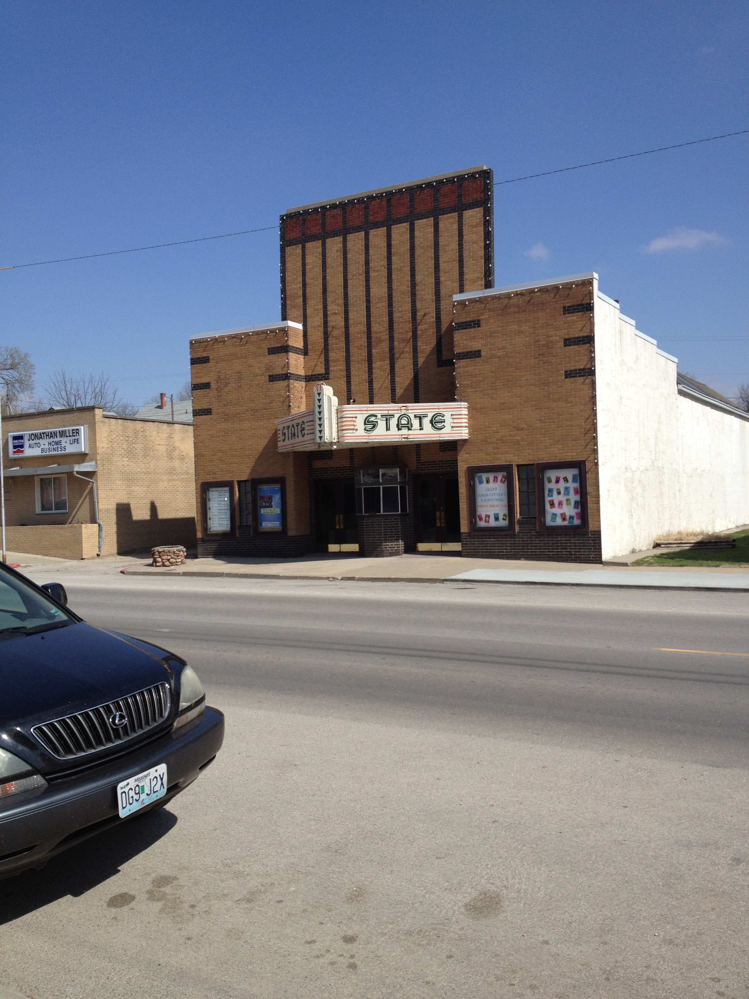 Photo of State Theater in Mound City, Missouri taken from front of building across street